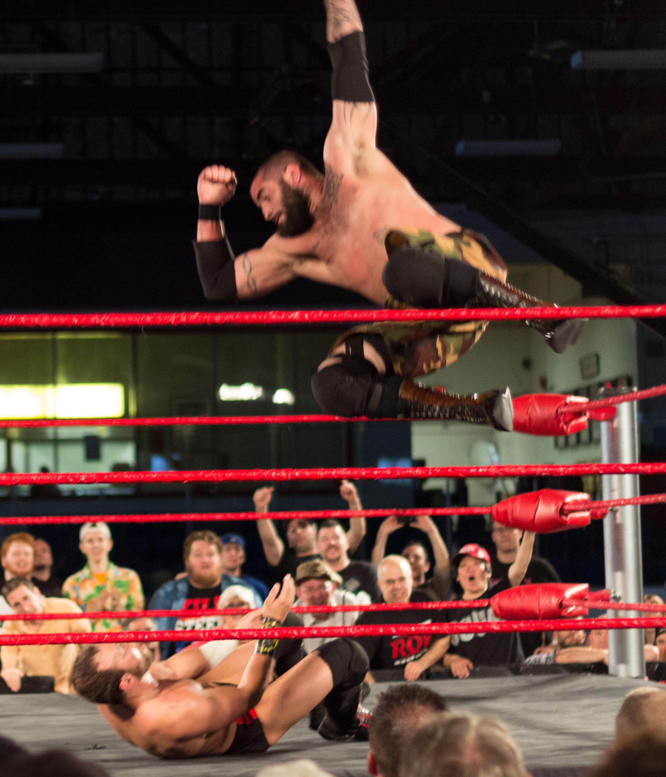 Mark Briscoe about to hit a flying elbow on Colin Delaney at the Ring of Honor tapings held at the Ted Reeve Arena in Toronto.